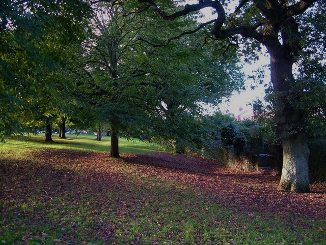 Heavitree Pleasure Ground A view in late afternoon sunlight along the northeastern side of the park, where it adjoins properties on Chard Road.